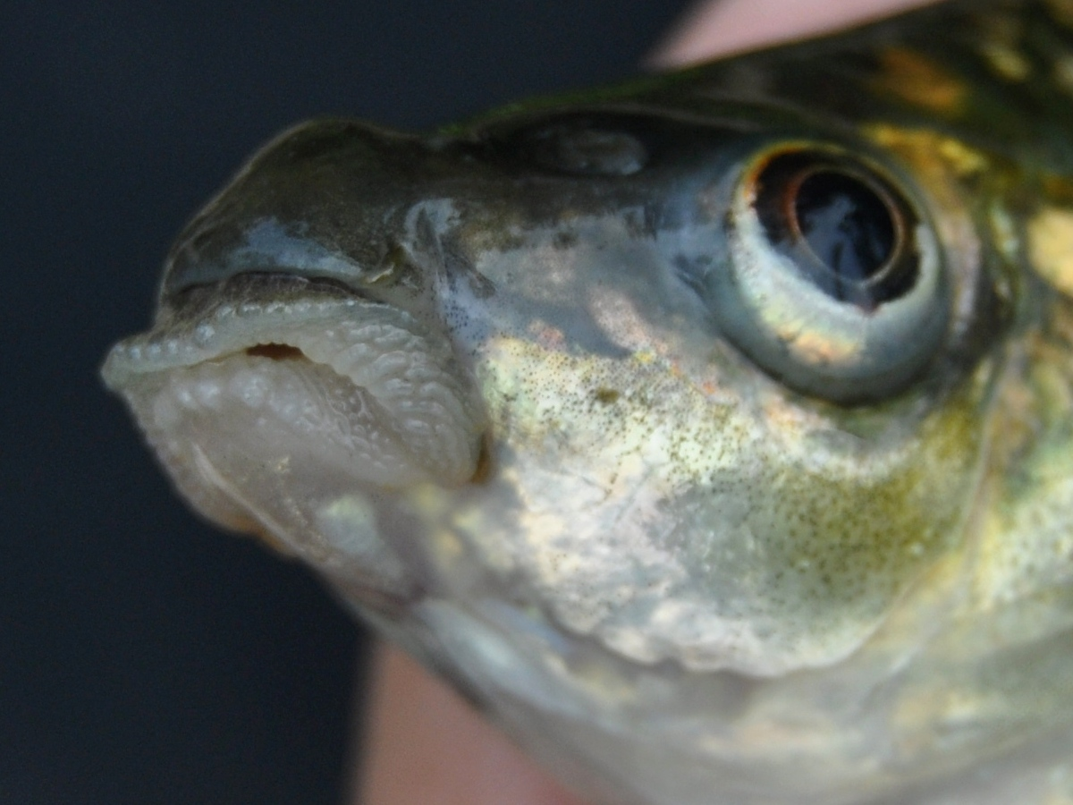 Hard-lipped Barb (Osteochilus hasseltii, syn. O. vittatus), 118 mm SL, From Tasikmalaya, West Java, Indonesia. Mouth region.